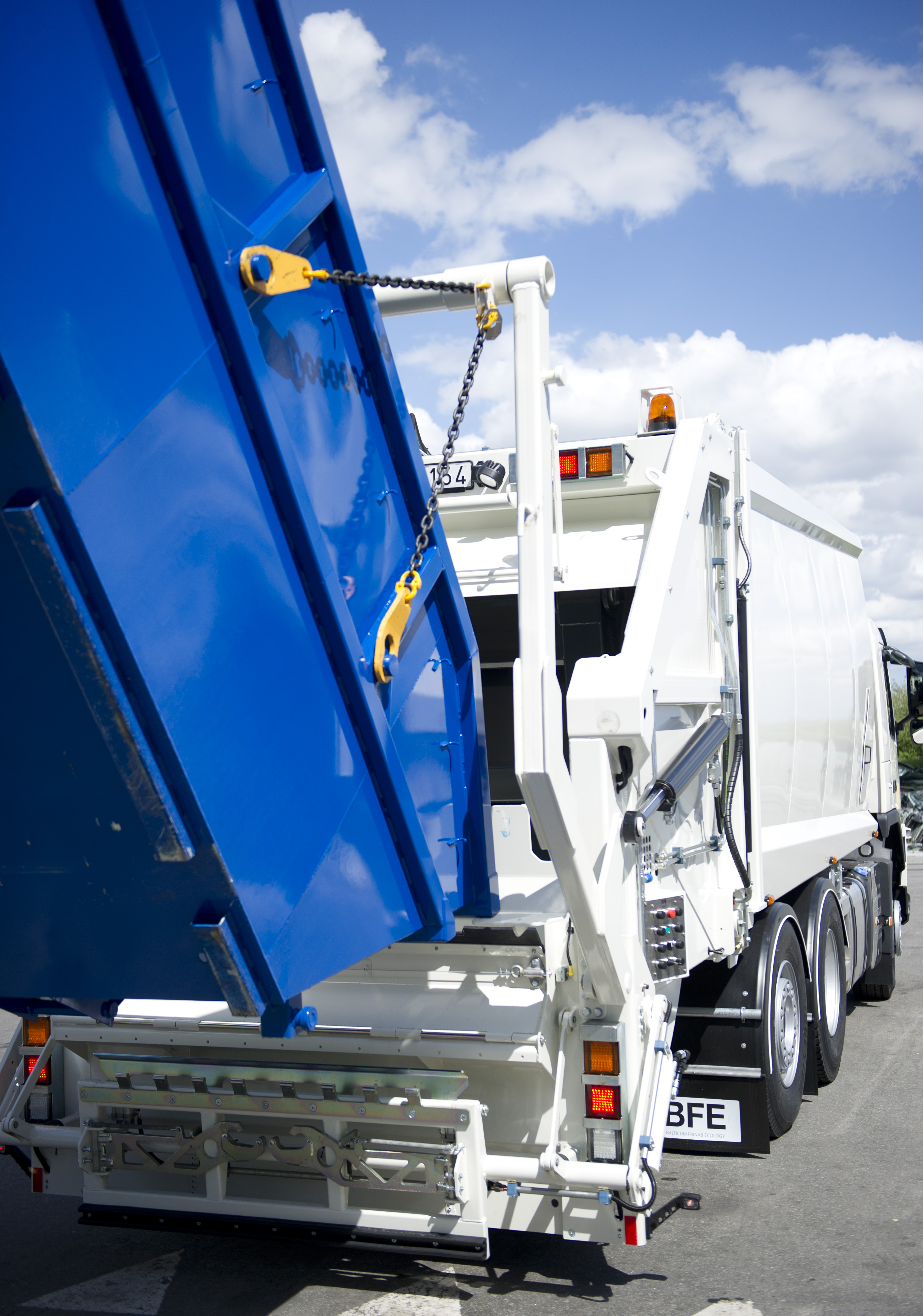 Waste collection vehicle BFE HD The strongest alternative on the market!